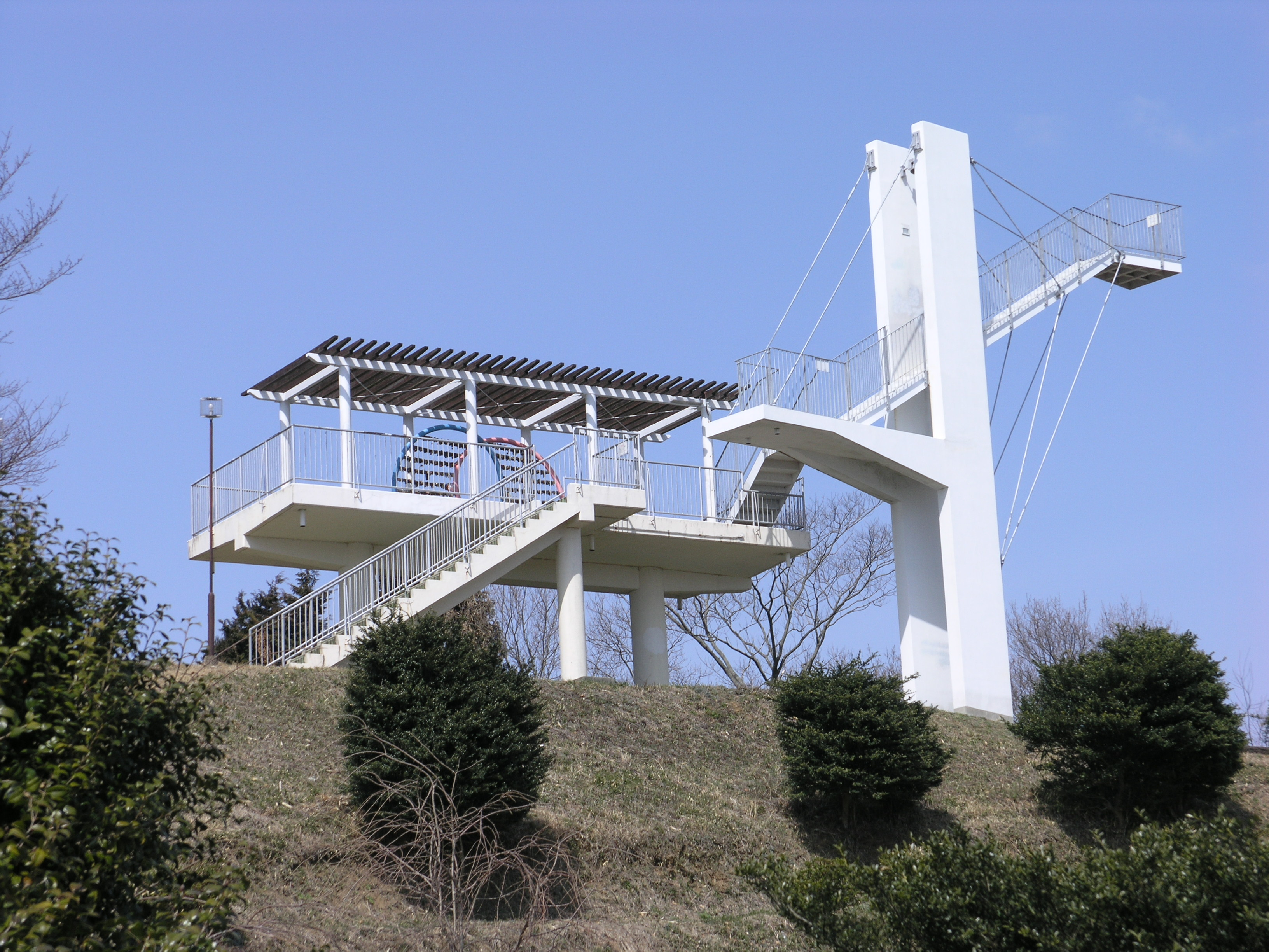 Kanenonaru-Tenboudai, Higashiosaka, Osaka / Heguri, Nara, Japan